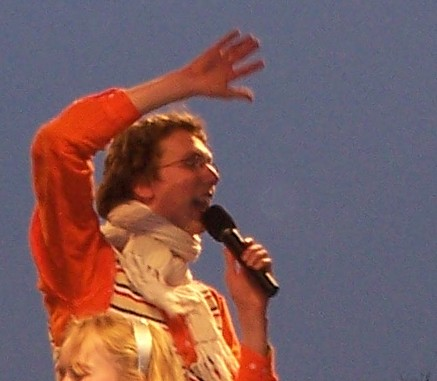 Adje, co-host of the television program Mooi! Weer de Leeuw